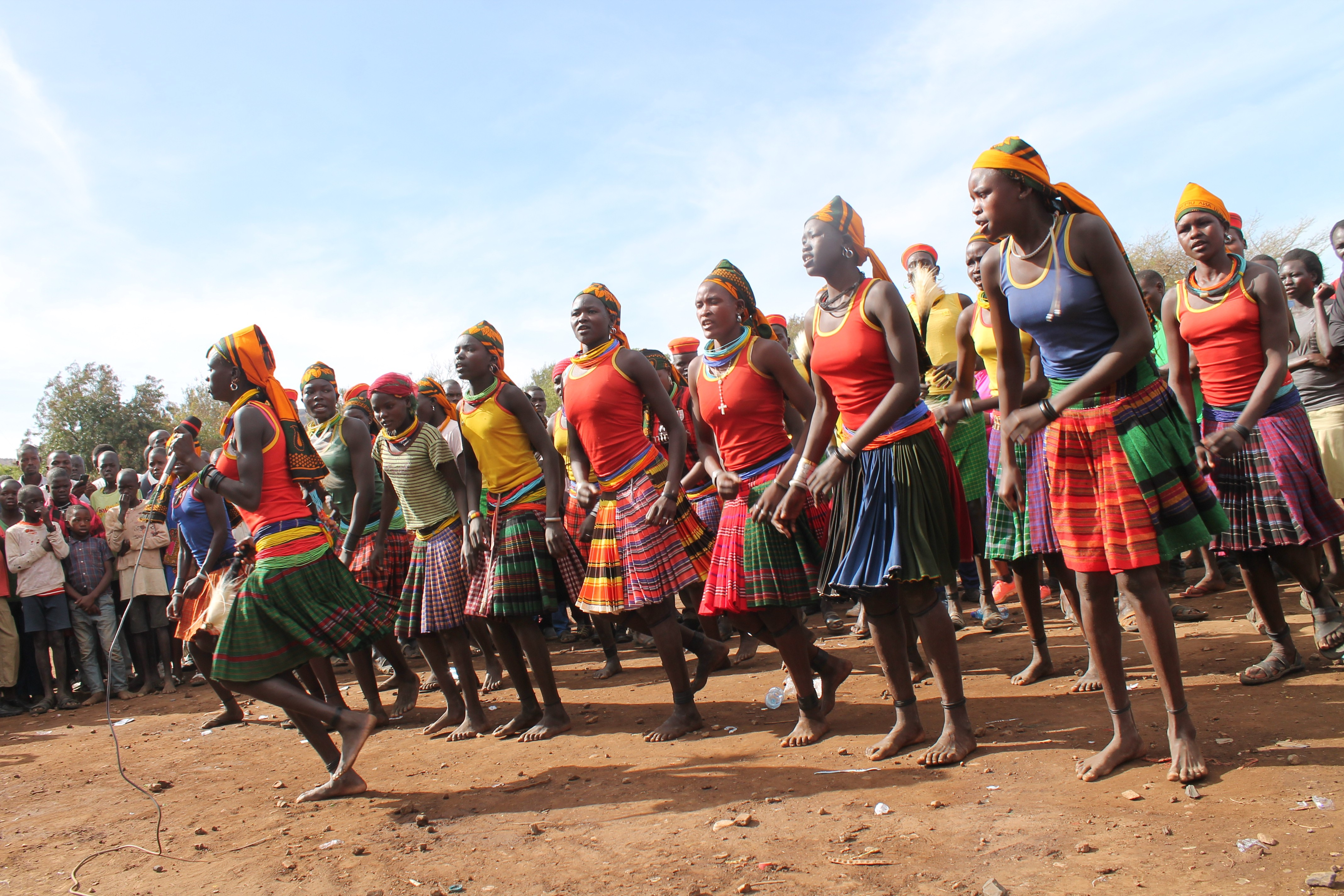 Young Warriors girl tradition dance This is an image of "African people at work" from Uganda